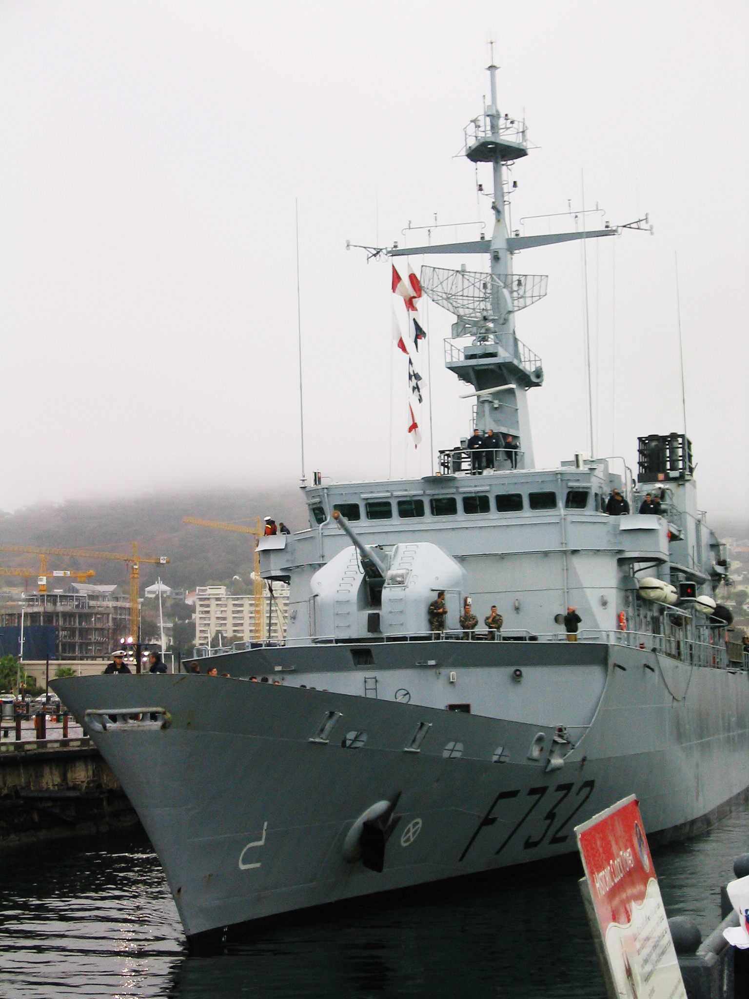 Nivôse leaving the V and A harbour in Cape Town.